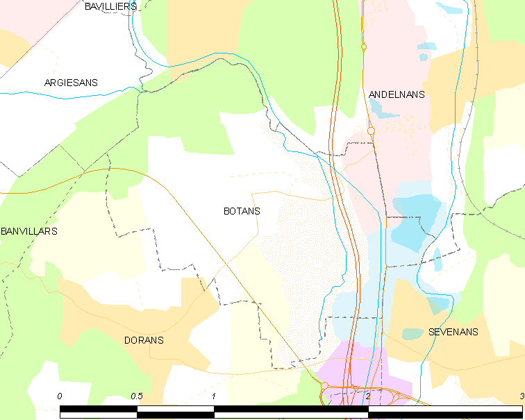 Map of French municipality Botans